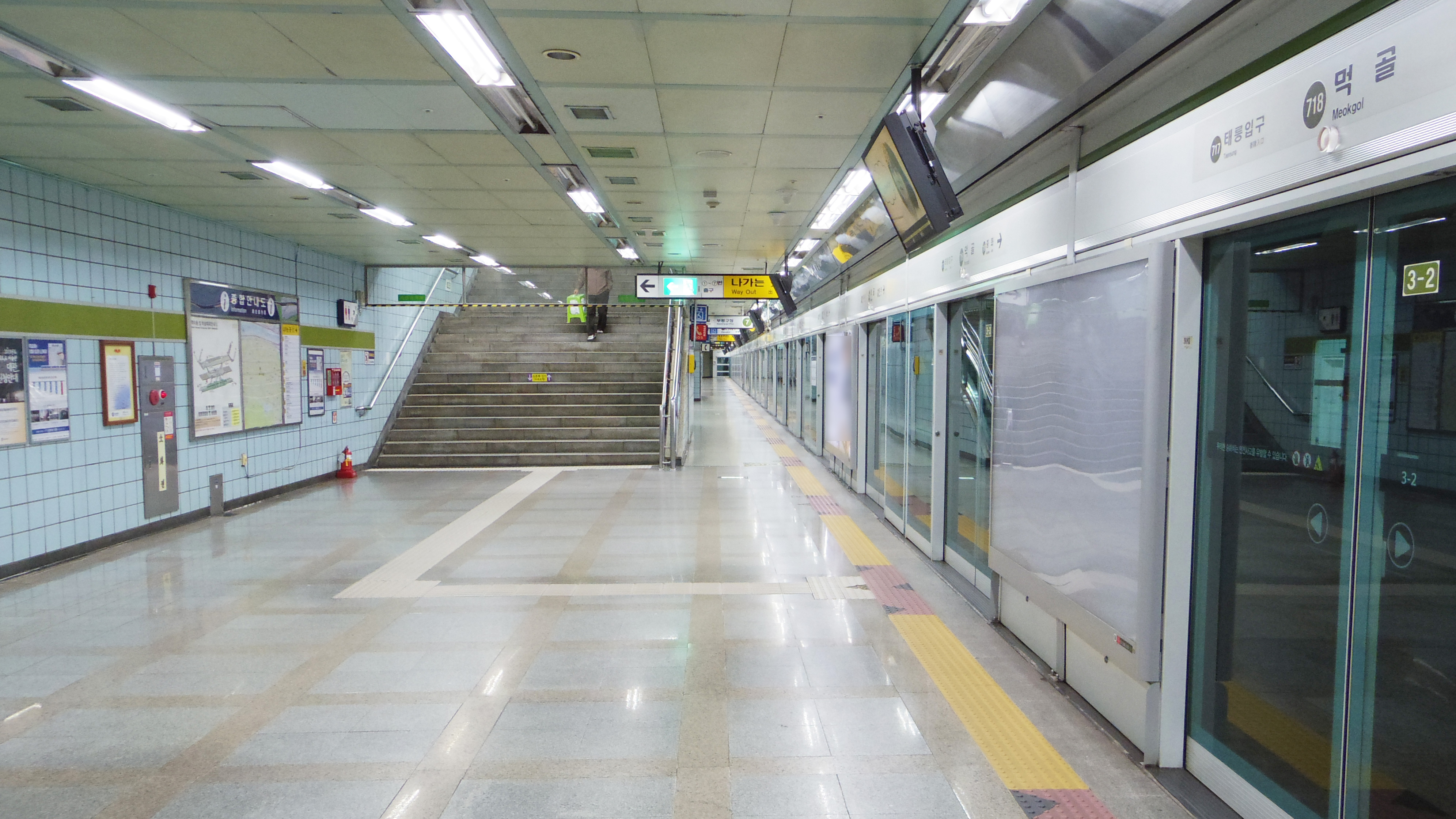 The platform at Meokgol Station on Seoul Subway Line 7 in Jungnang-gu, Seoul, Republic of Korea(South Korea)